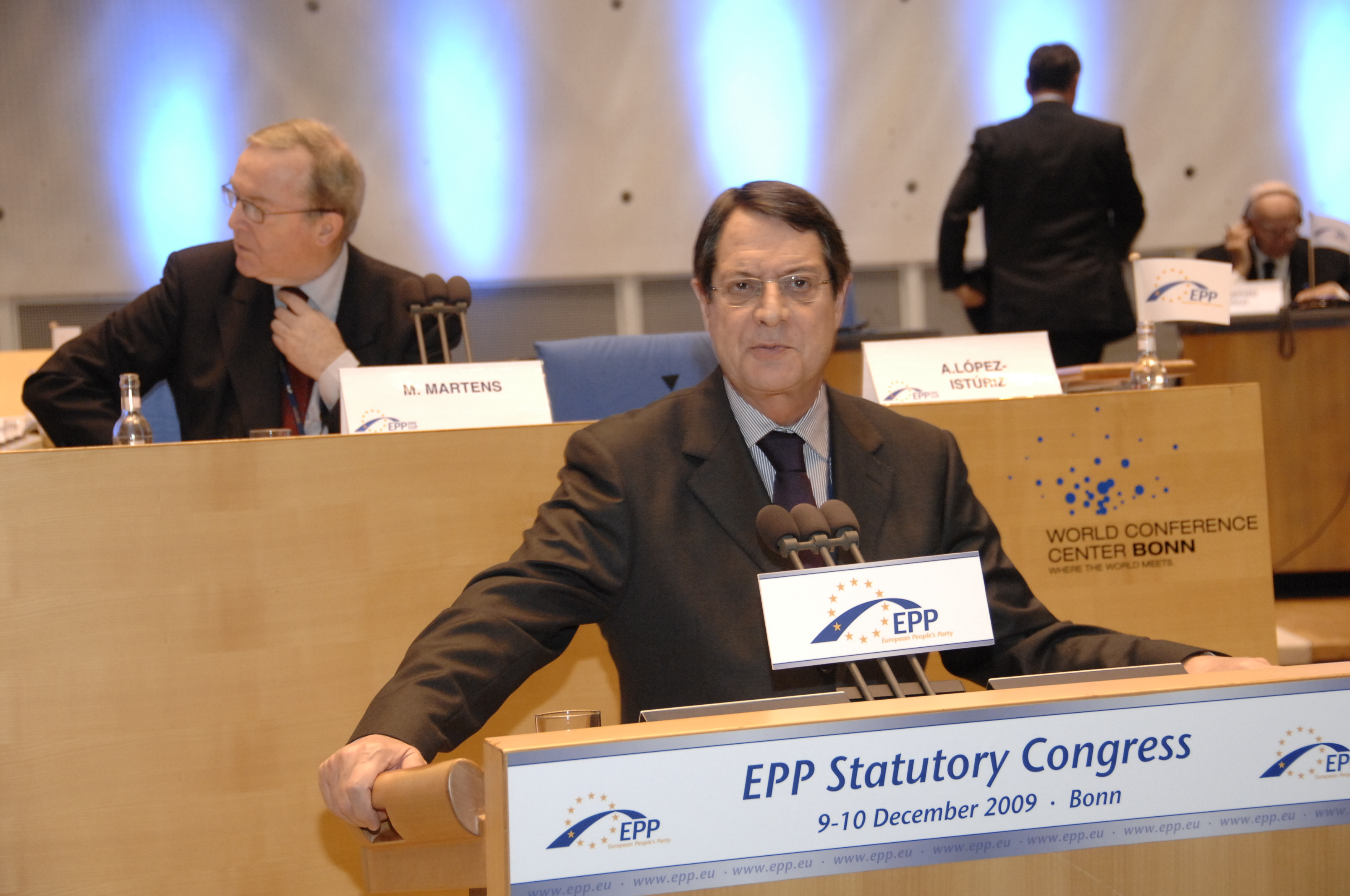 EPP Congress Bonn